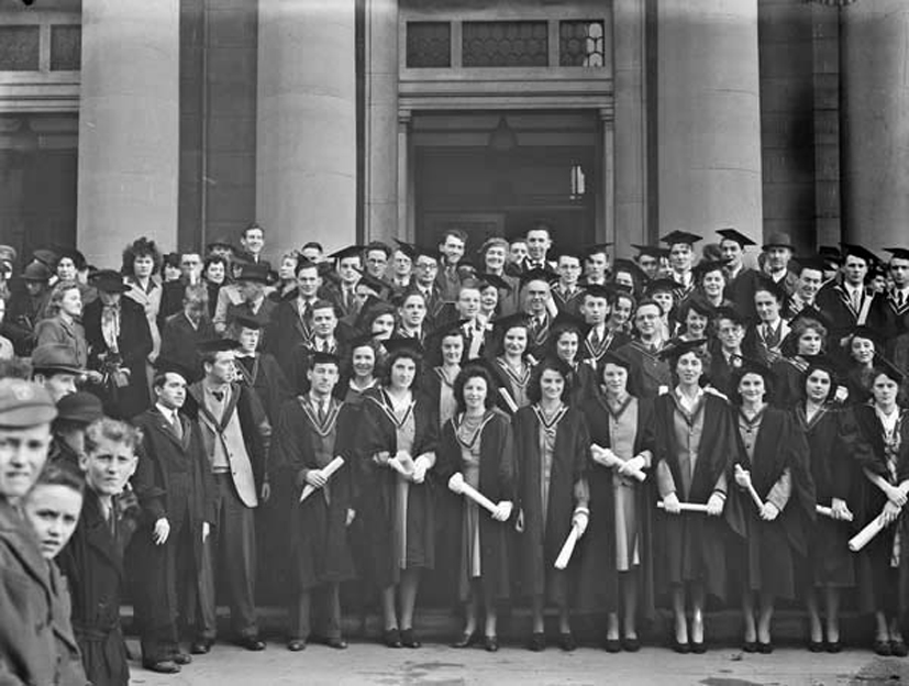 Graduates of University College Dublin at Earlsfort Terrace. Date: Saturday, 15 July 1944 NLI Ref.: KE_309